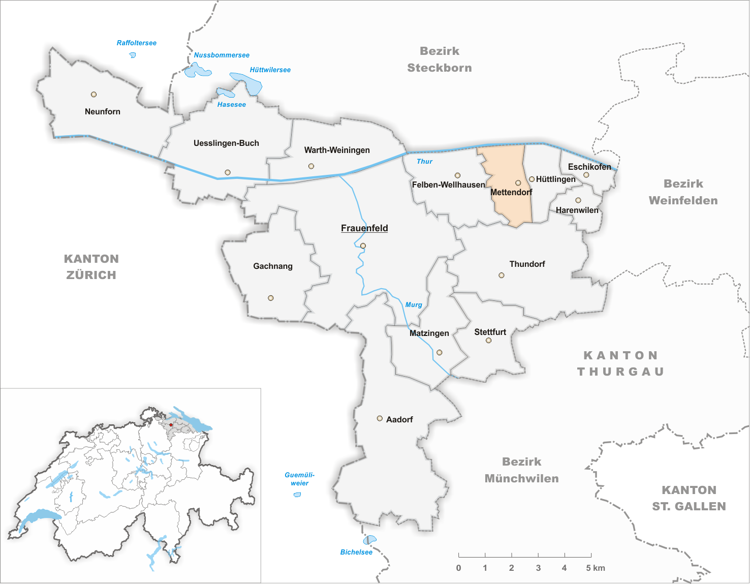 Municipality Mettendorf